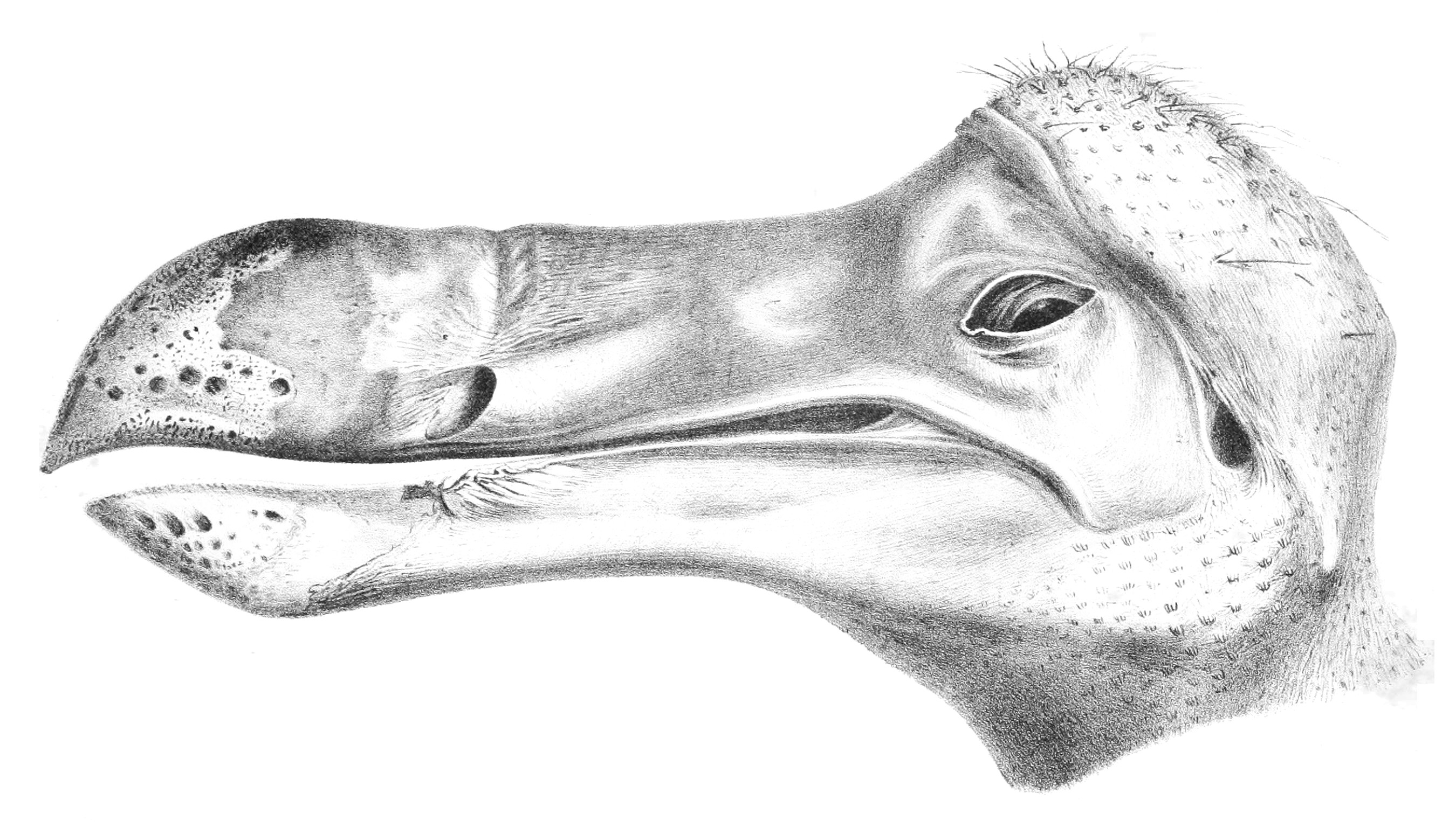 Side view of the head of the Dodo with the dried skin, from the unique specimen in the Ashmolean Museum at Oxford (it was dissected later) - Fig. I of Plate V from "The dodo and its kindred" by Strickland & Melville (1848)